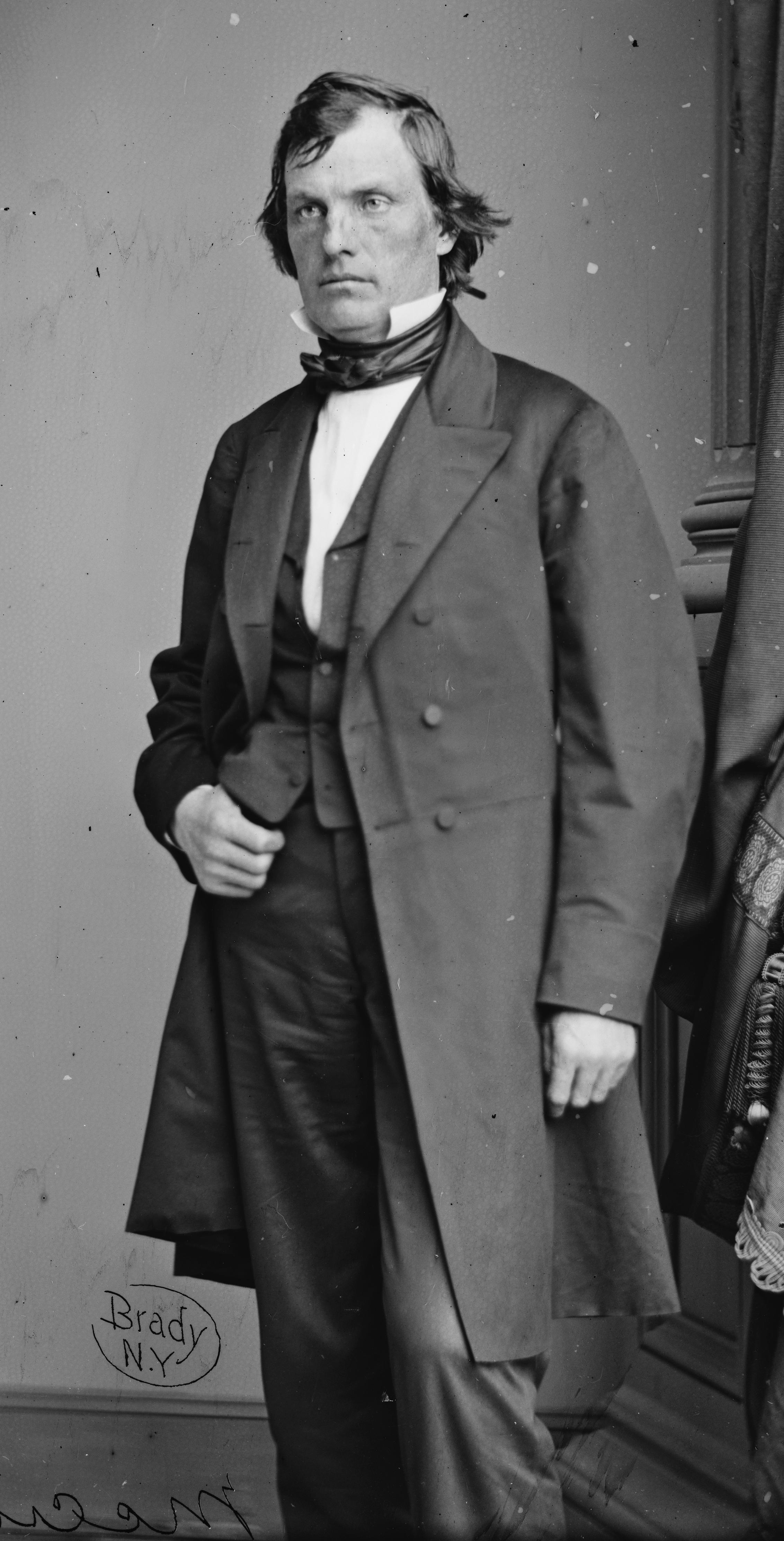 John McCunn. Library of Congress description: "Judge McCunn".